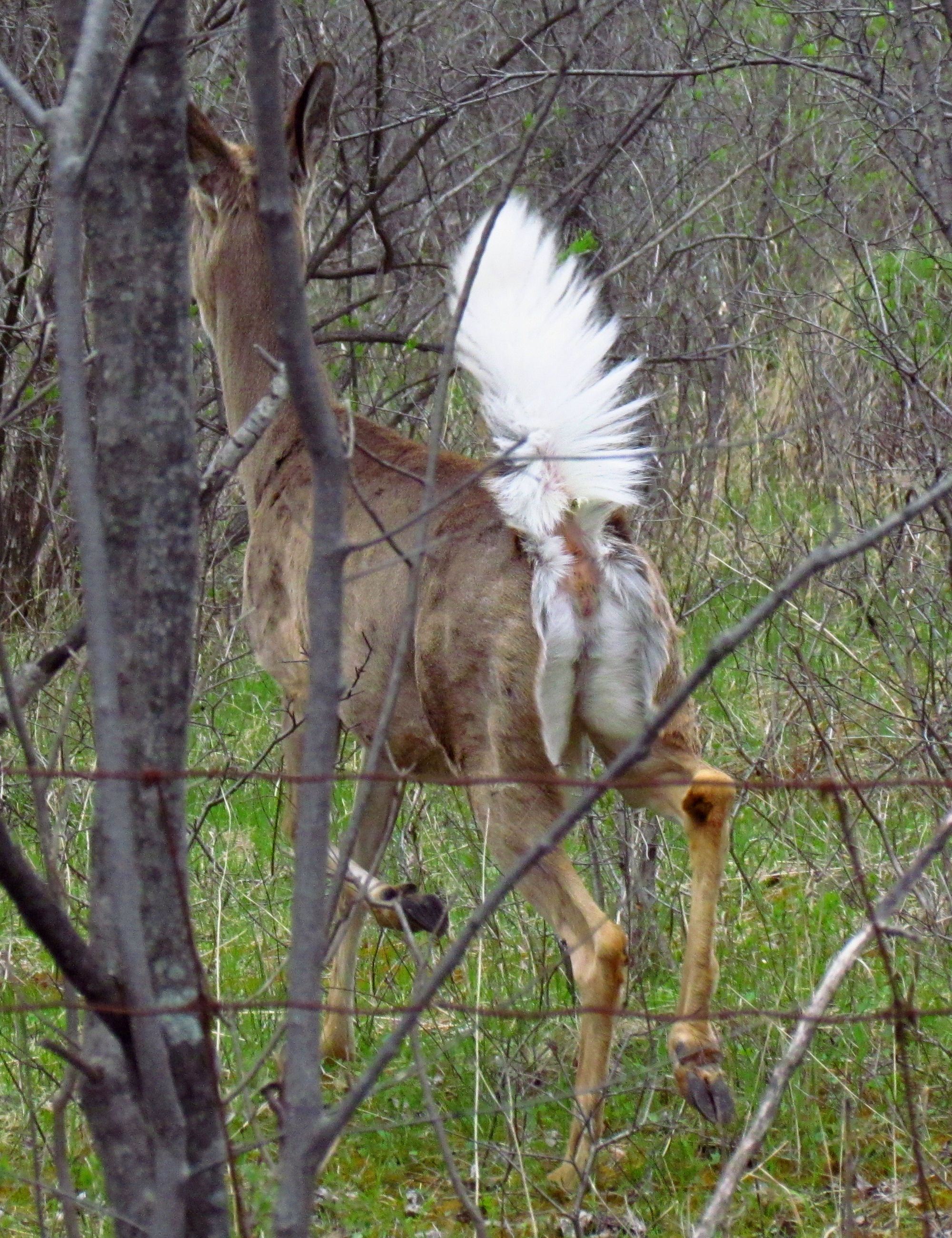 White-tailed Deer (Odocoileus virginianus borealis), female with tail up, Shirley's Bay, Ottawa, Ontario, Canada